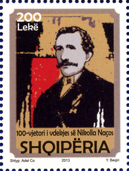 Albanian Stamp, 100th Anniversary of Nikola Naço's death